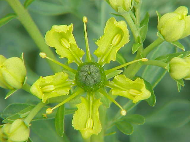 Species: Ruta graveolens Family: Rutaceae Image No. 11